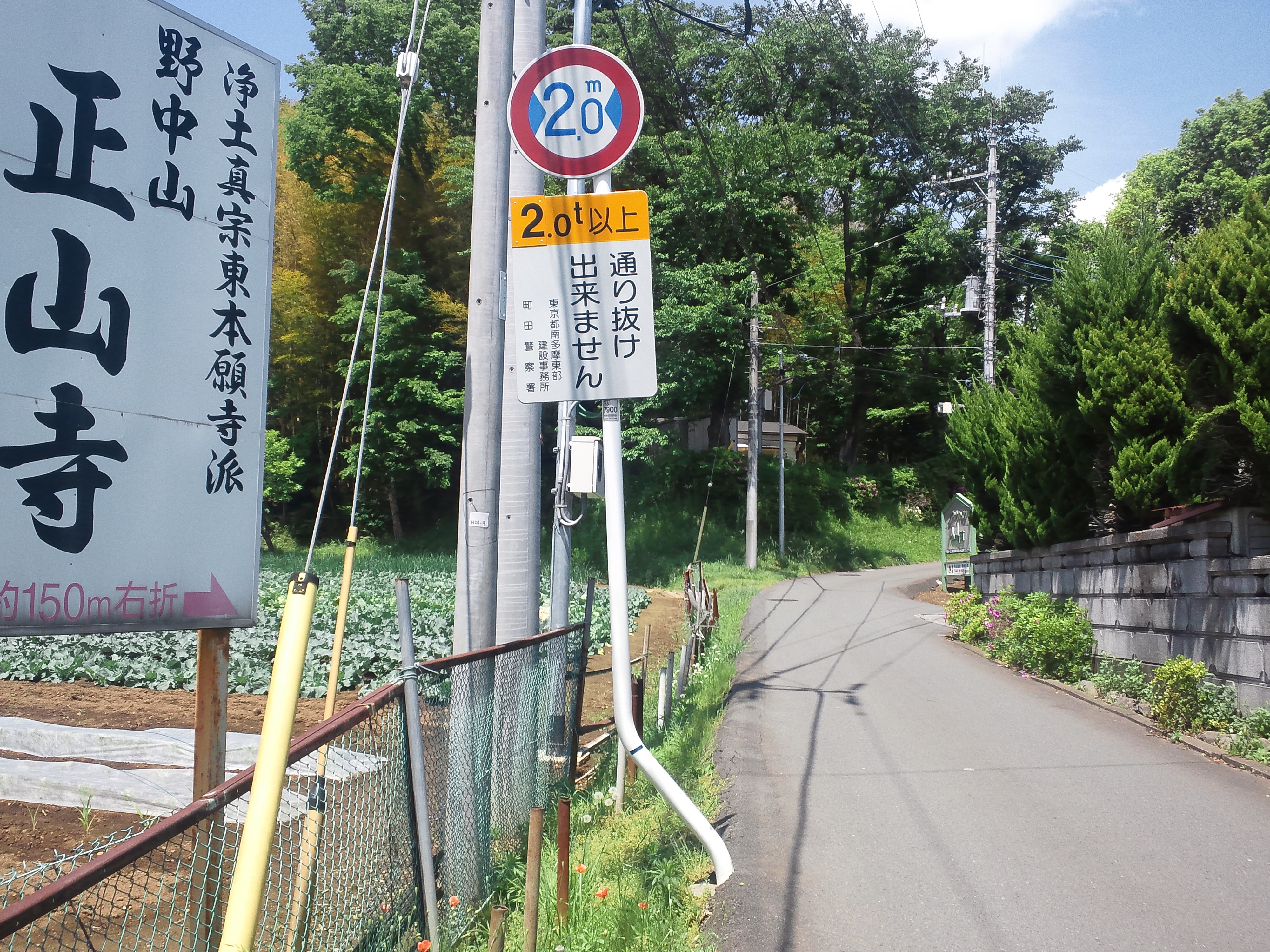 Tokyo Metropolitan Road Route 155 in Machida City